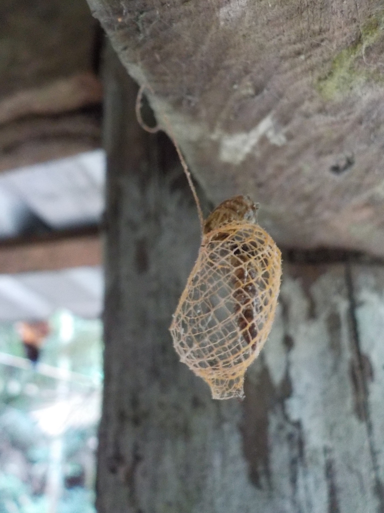 Pupa found under a roof in Km41 camp in the Central Amazon. More details in the iNaturalist observation (